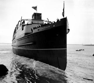 Launch of Lady of Mann